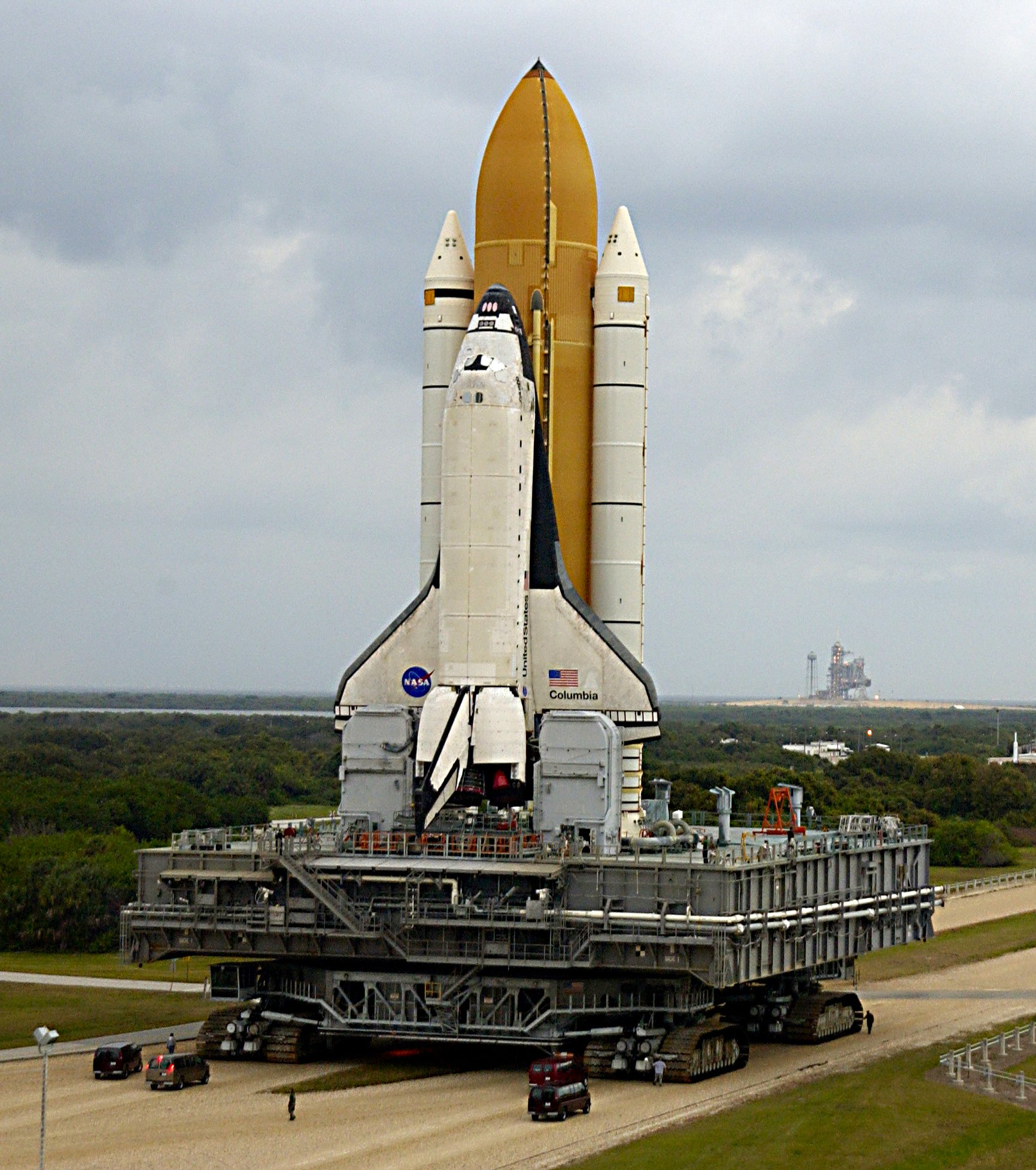 Space Shuttle Columbia rolls towards Launch Pad 39A, sitting atop the Mobile Launcher Platform, which in turn is carried by the crawler-transporter underneath. Columbia disintegrated on re-entry at the end of this mission